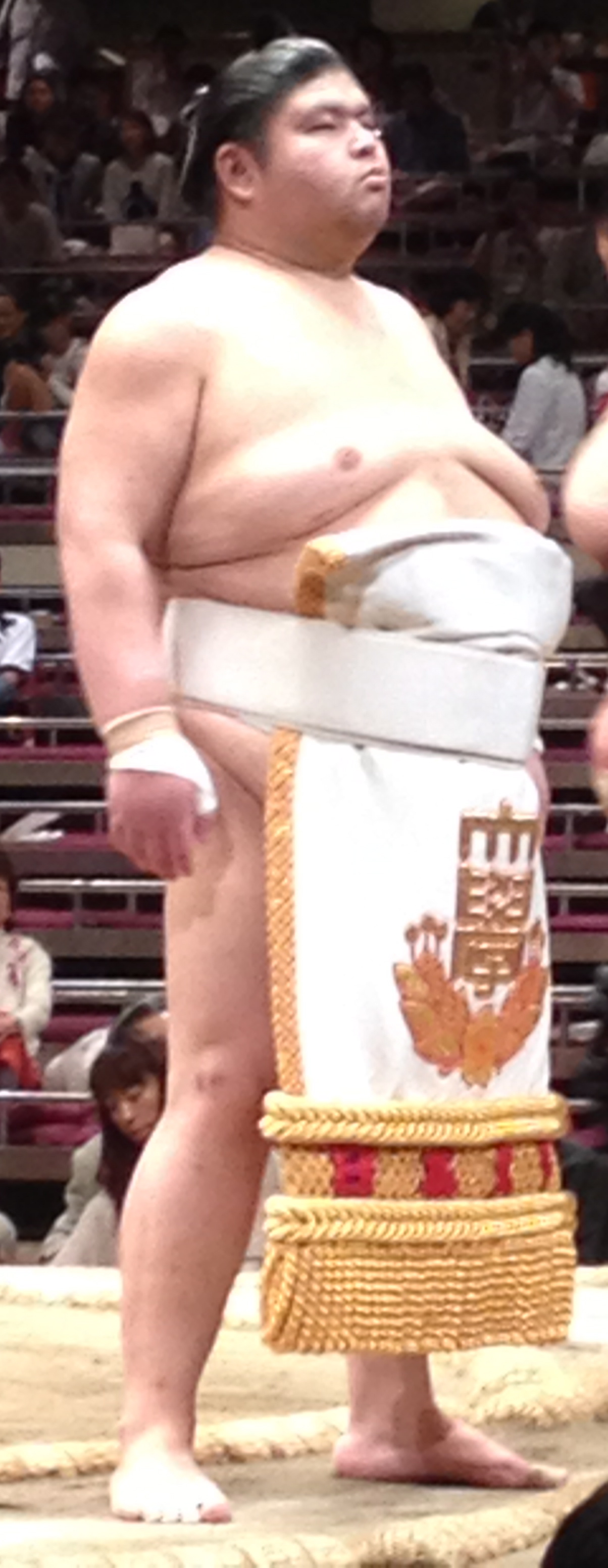 Taken at September 2014 tournament